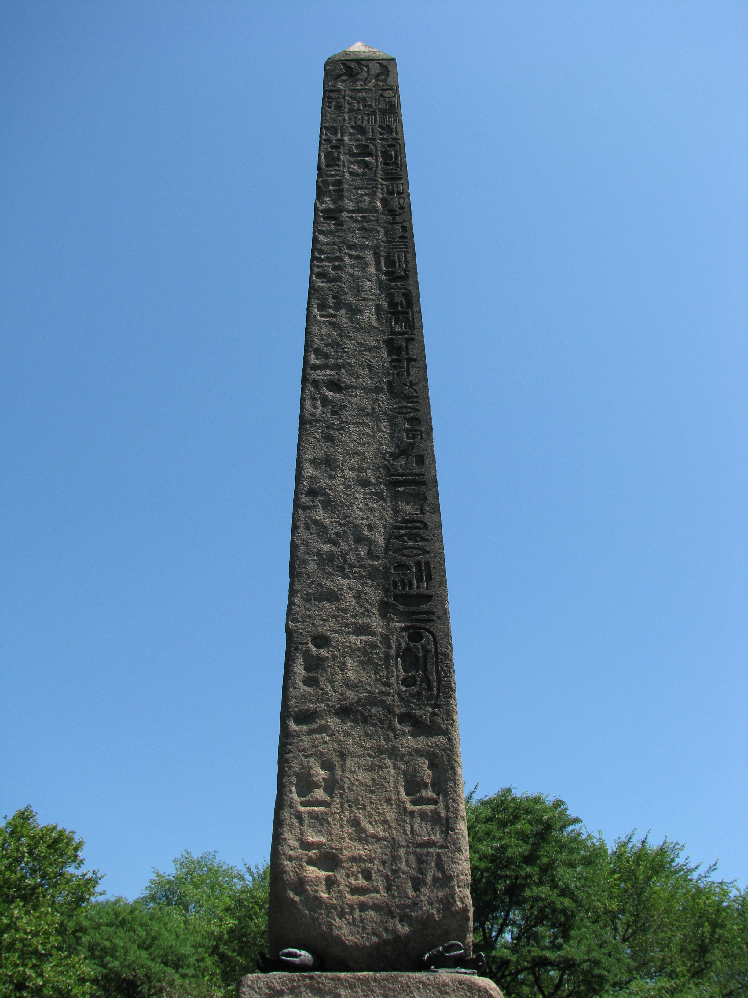 Cleopatra's Needle, Central Park, New York City.